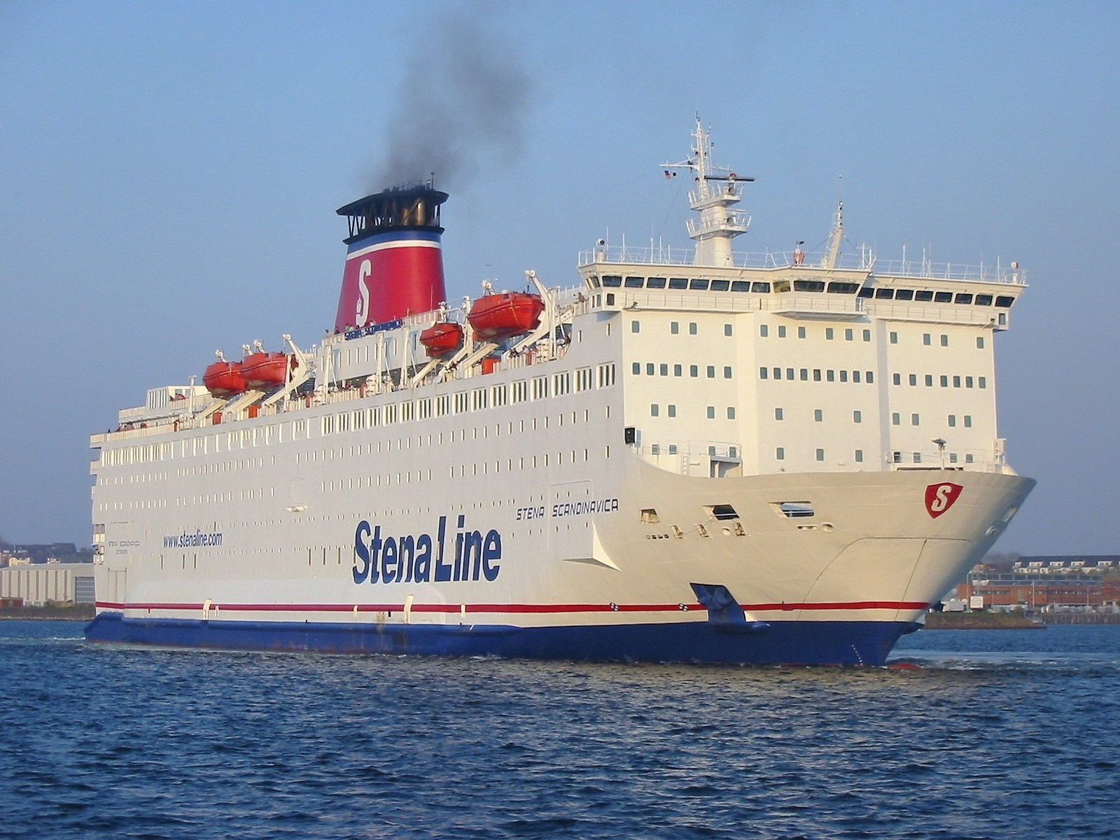 Stena-Line Ferry MS Stena Scandinavica, Harbor of Kiel, Germany IMO Number: 7907661 MMSI Number: 265200000 Callsign: SLYH Length: 176 m Beam: 31 m